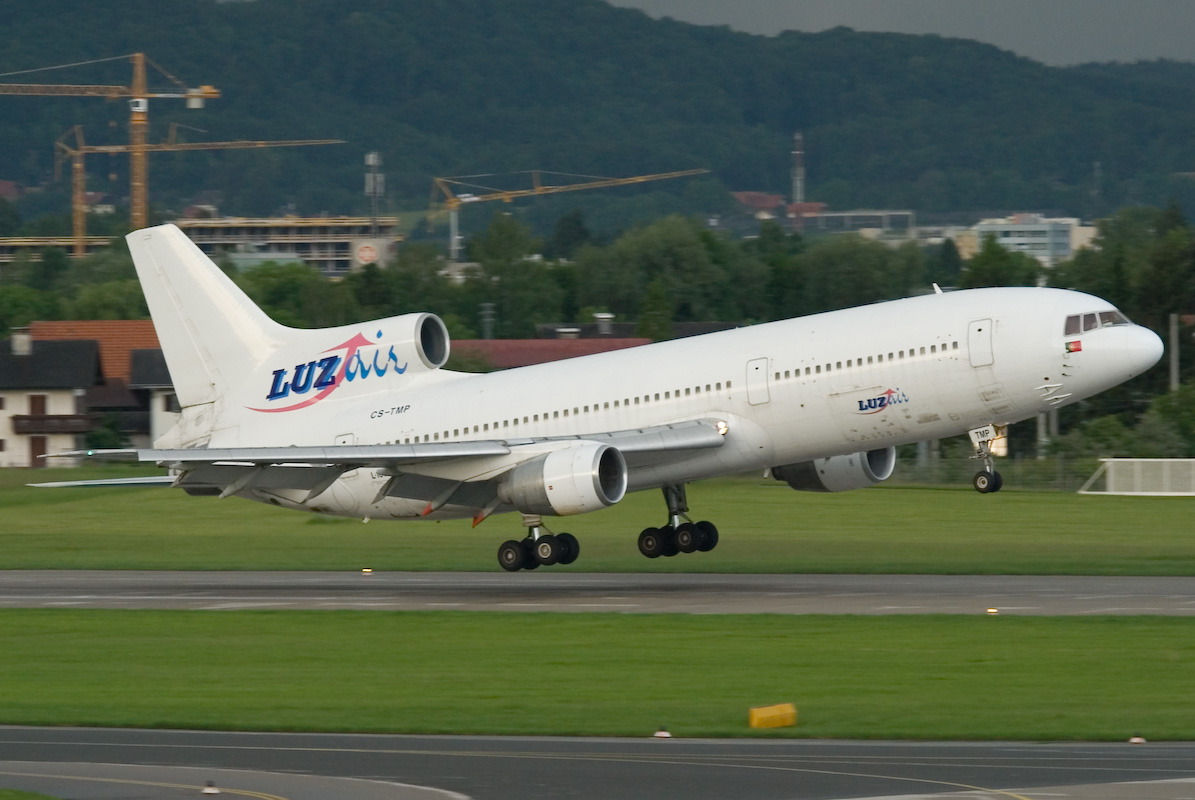 Luzair Lockheed L-1011